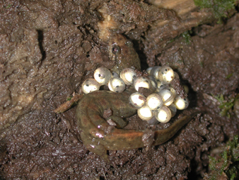 Northern dusky salamander (Desmognathus fuscus) in the Shennandoah National Park, Page County, Virginia